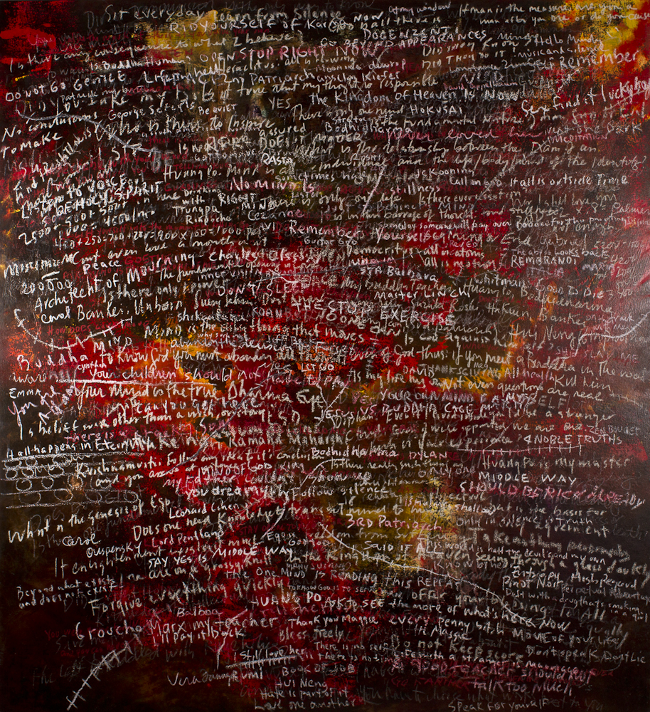 Painting by Adam Shaw